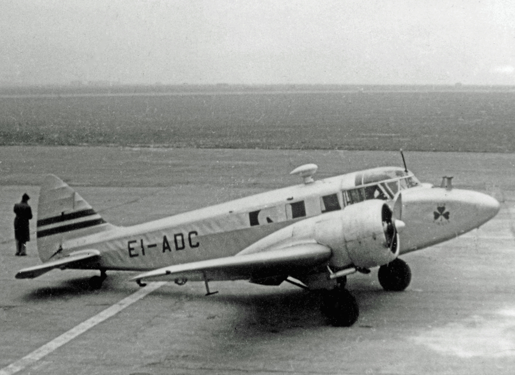 Airspeed AS.65 Consul EI-ADC of Aer Lingus at Liverpool Airport in 1949